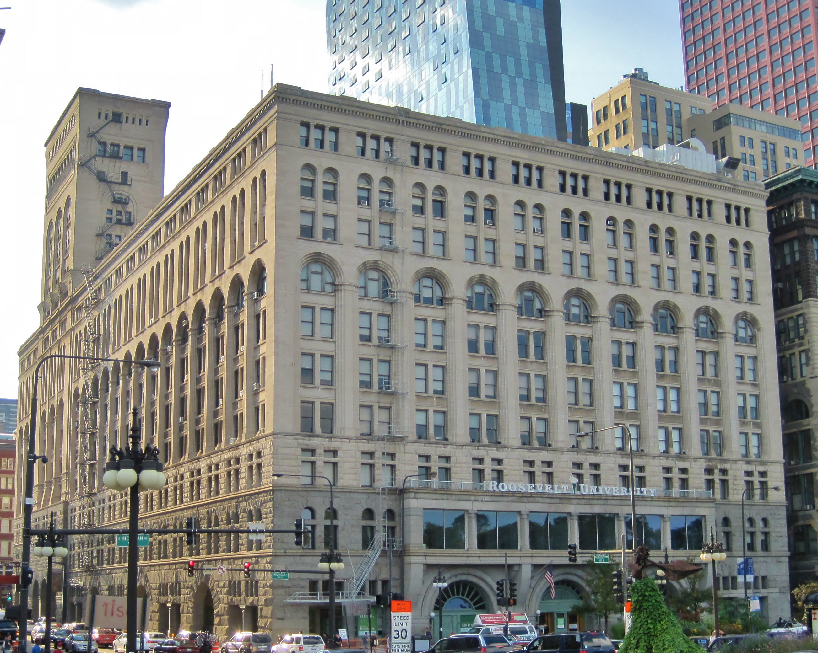 Auditorium Building, Roosevelt University in Chicago (1889), a national landmark. It was commissioned by Ferdinand Peck to be the largest and most luxurious theater in the country. Peck was able to convince many influential Chicagoans to contribute to its construction, including Marshall Field, Martin Ryerson, and George Pullman. The theater included the first central air conditioning system, and was the first to be lit entirely with light bulbs. President Grover Cleveland laid the cornerstone in 1887. A year later, the 1888 Republican National Convention was held in the partially-completed building. On December 9, 1889, President Benjamin Harrison returned to dedicate the building. Adler & Sullivan designed the building and operated out of the top floor upon its completion. The Chicago Symphony Orchestra made its first performance here in 1891 and continued to perform here until Orchestra Hall was built in 1904. Theodore Roosevelt held a convention for his independent National Progressive Party here in 1912, where he was nominated for President (the "bull moose" party). Opera functions ended in 1929 when the Civic Opera House was built. Only a few years later, amidst the Great Depression, the theater was closed. In 1946, Roosevelt University moved into the building. The theater was re-opened in 1967.